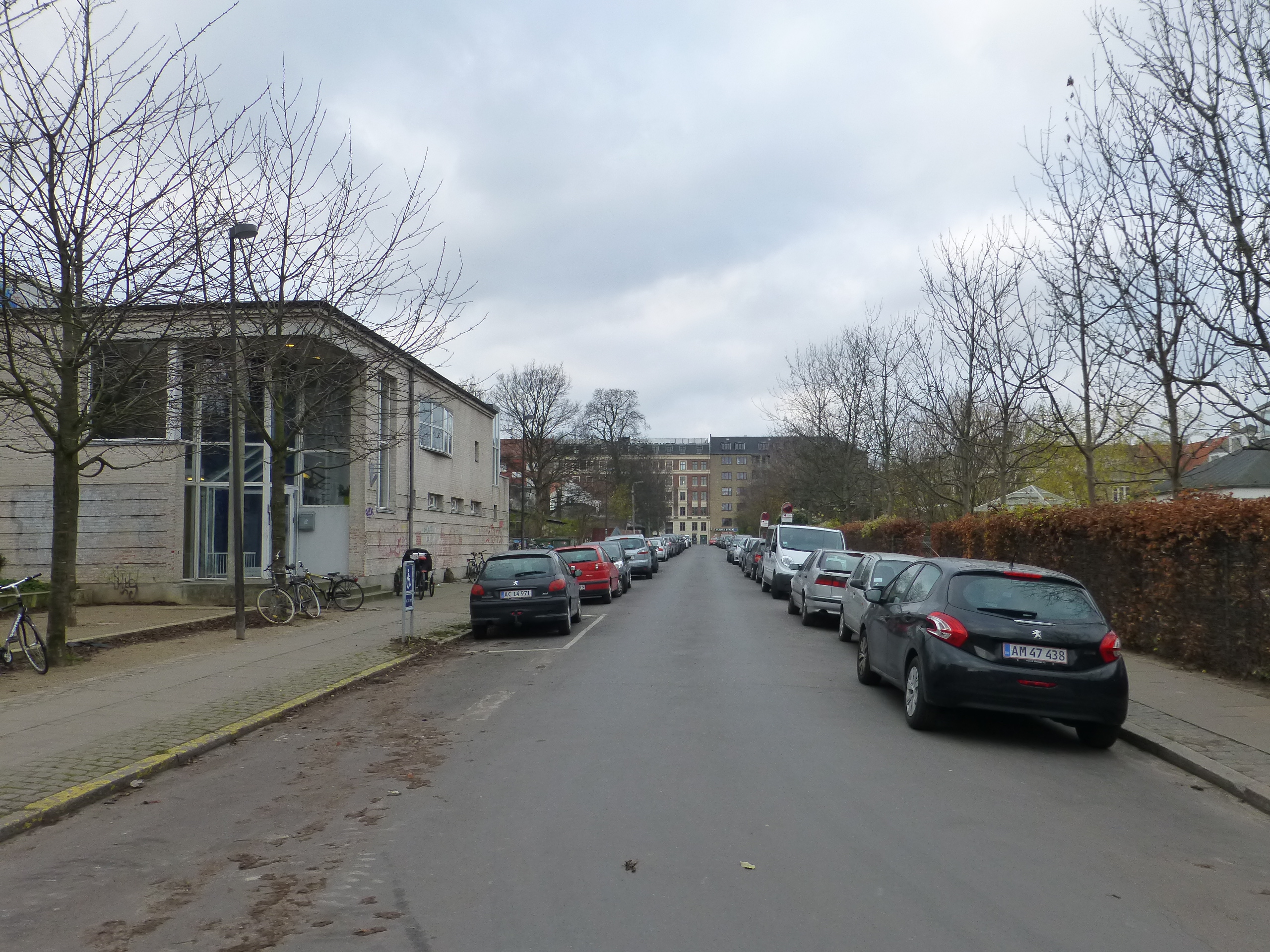 The street Krausesvej in Østerbro in Copenhagen.